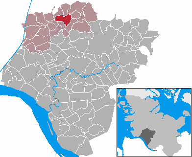 This map shows the area of the municipality Schenefeld in the Kreis (district) Steinburg, Schleswig-Holstein, Germany.